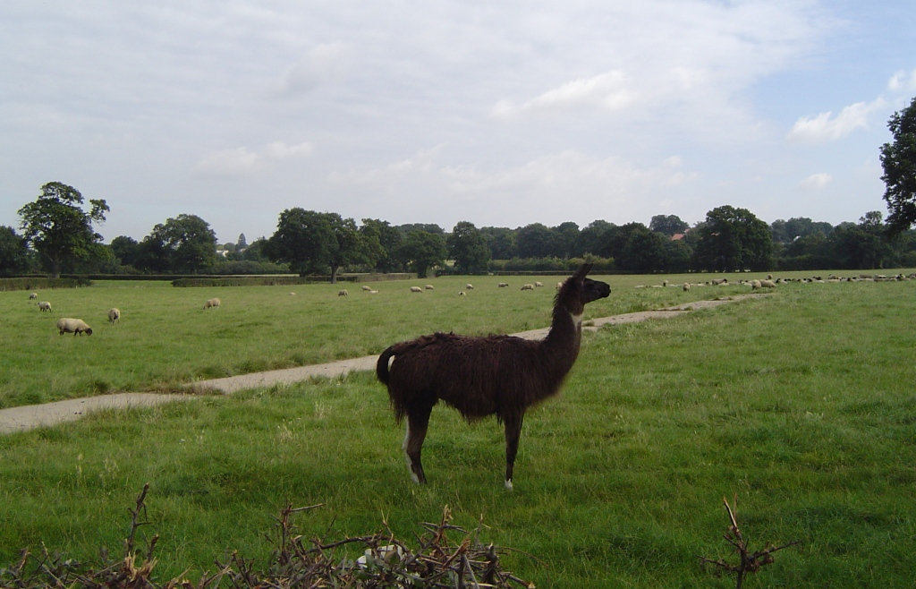 Claygate from Arbrook Farm